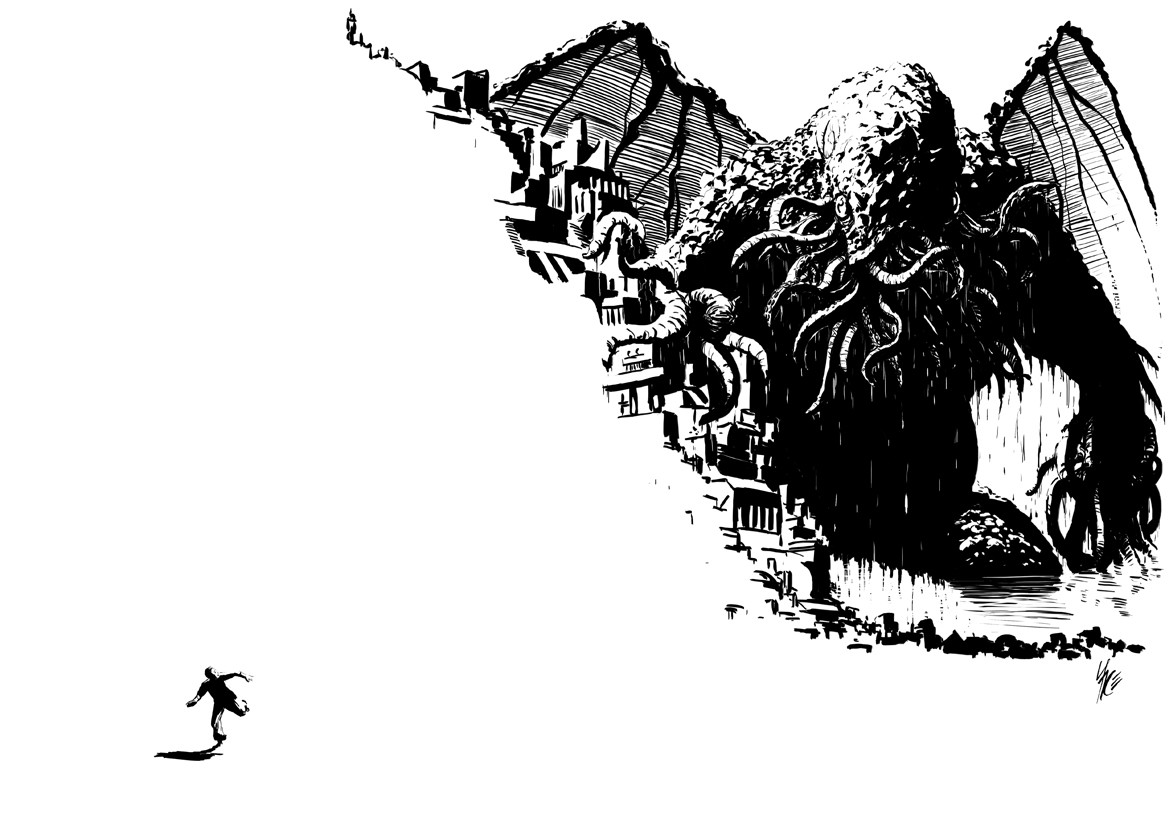 Spawn of the Stars, Sofyan Syarief's artwork based on H. P. Lovecraft's story The Call of Cthulhu.